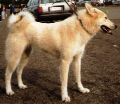 A West Siberian Laika female.